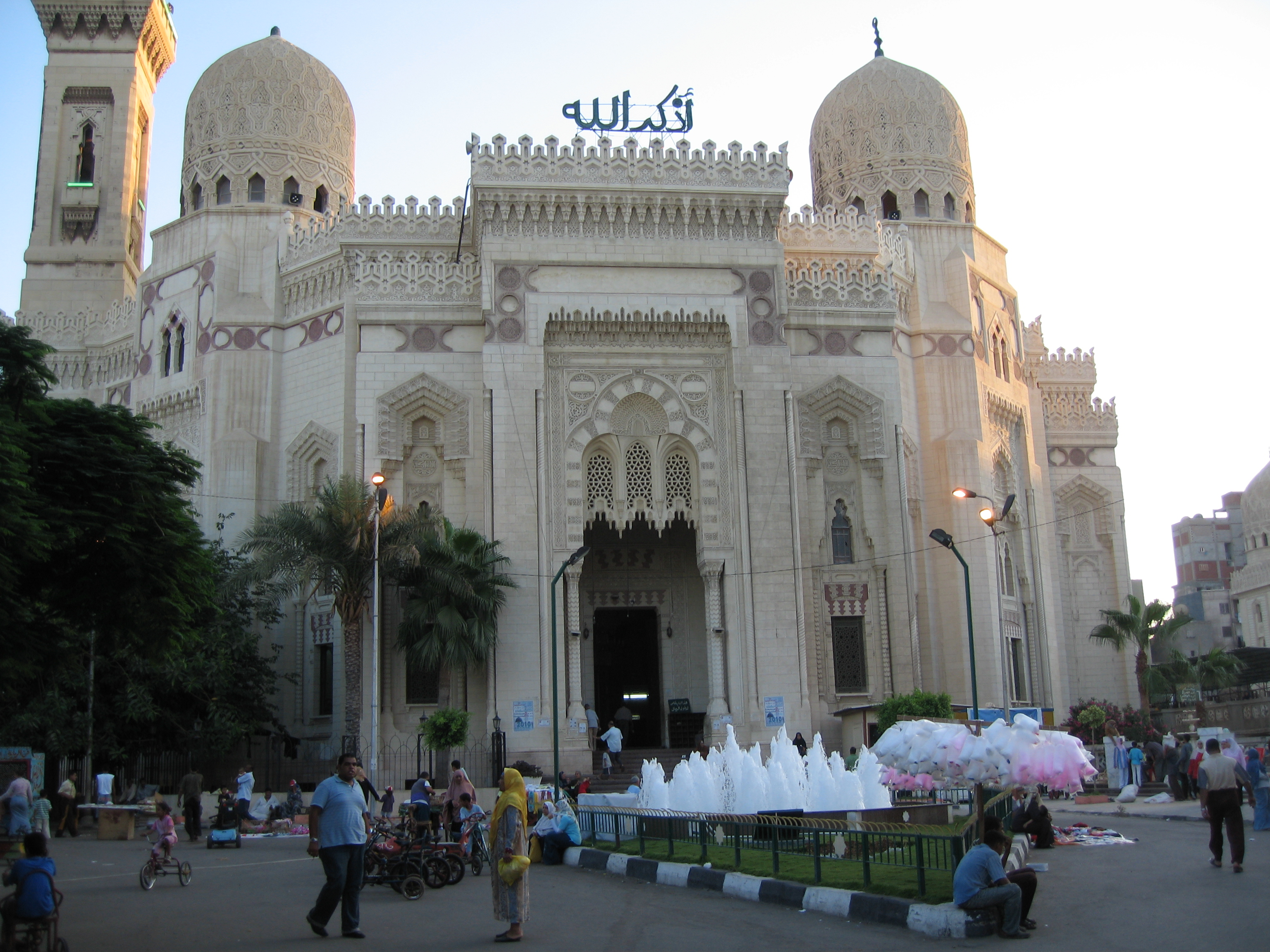 Entrance of Abu el-Abbas el-Mursi Mosque in Alexandria, Egypt. The large lettering above the door reads اذكر الله, "remember Allah" or "think of Allah".